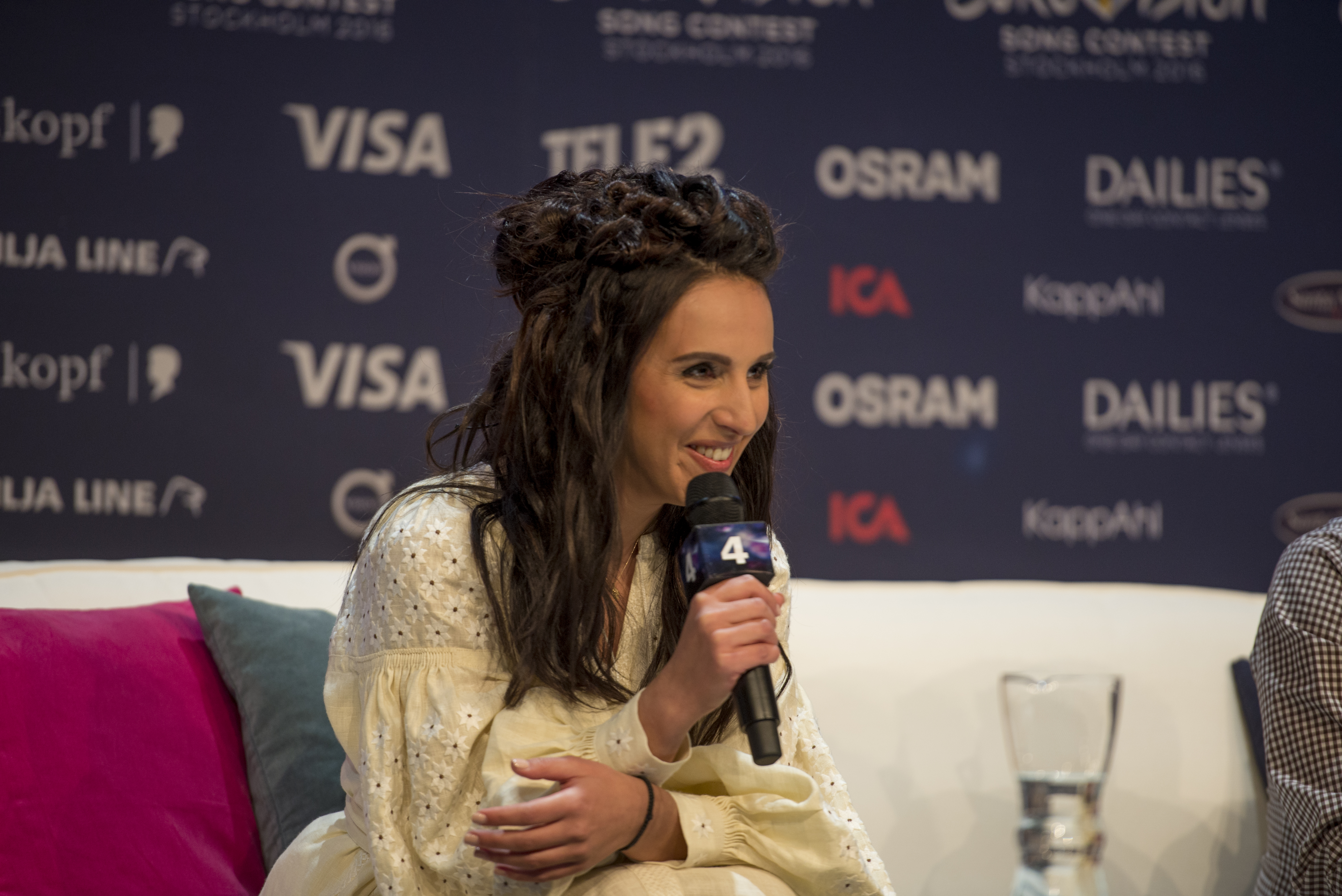 Jamala at a Meet & Greet during the Eurovision Song Contest 2016 in Stockholm. (Help translate this text)